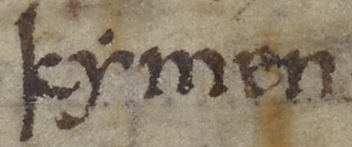 Kymen; from the Anglo-Saxon Chronicle.